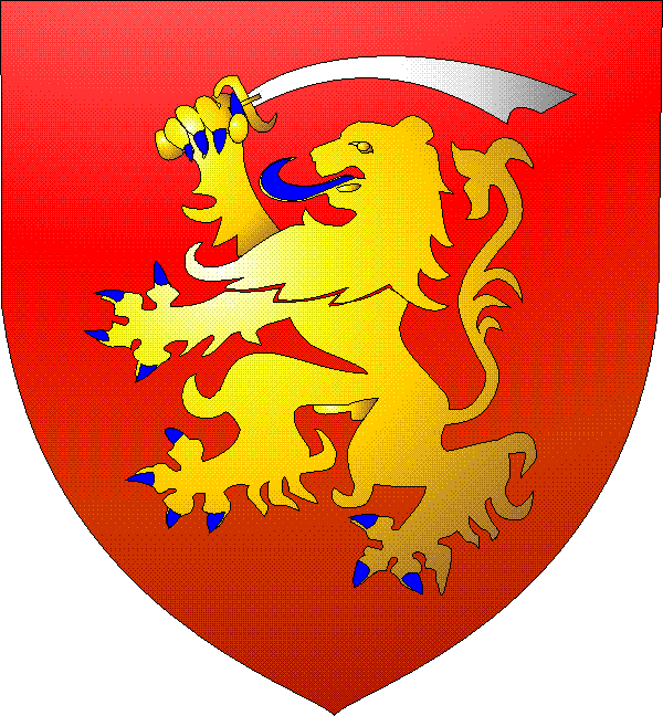 Scrymgeour, Earl of Dundee CoA